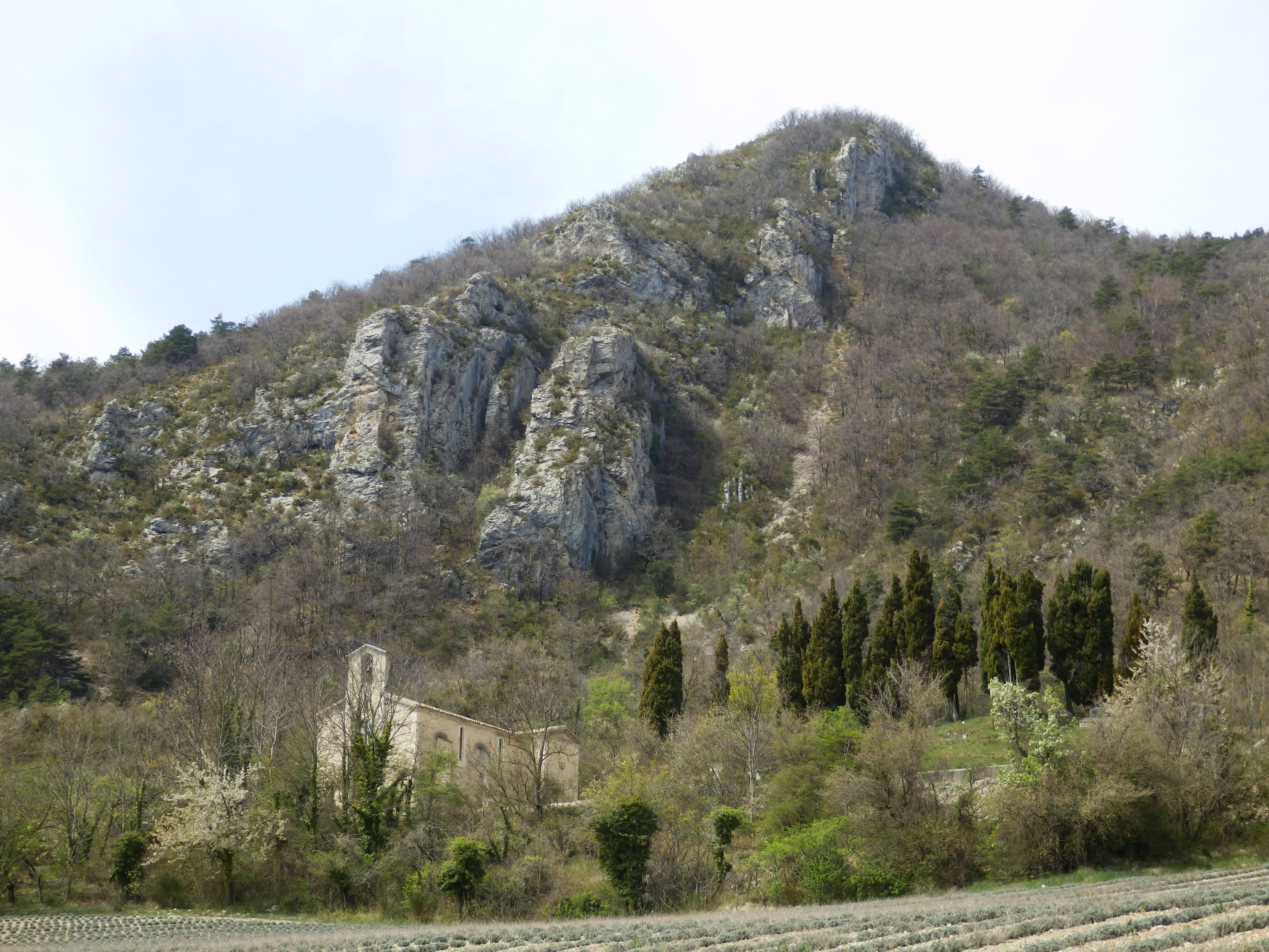 Church of Teyssières, Drôme, France